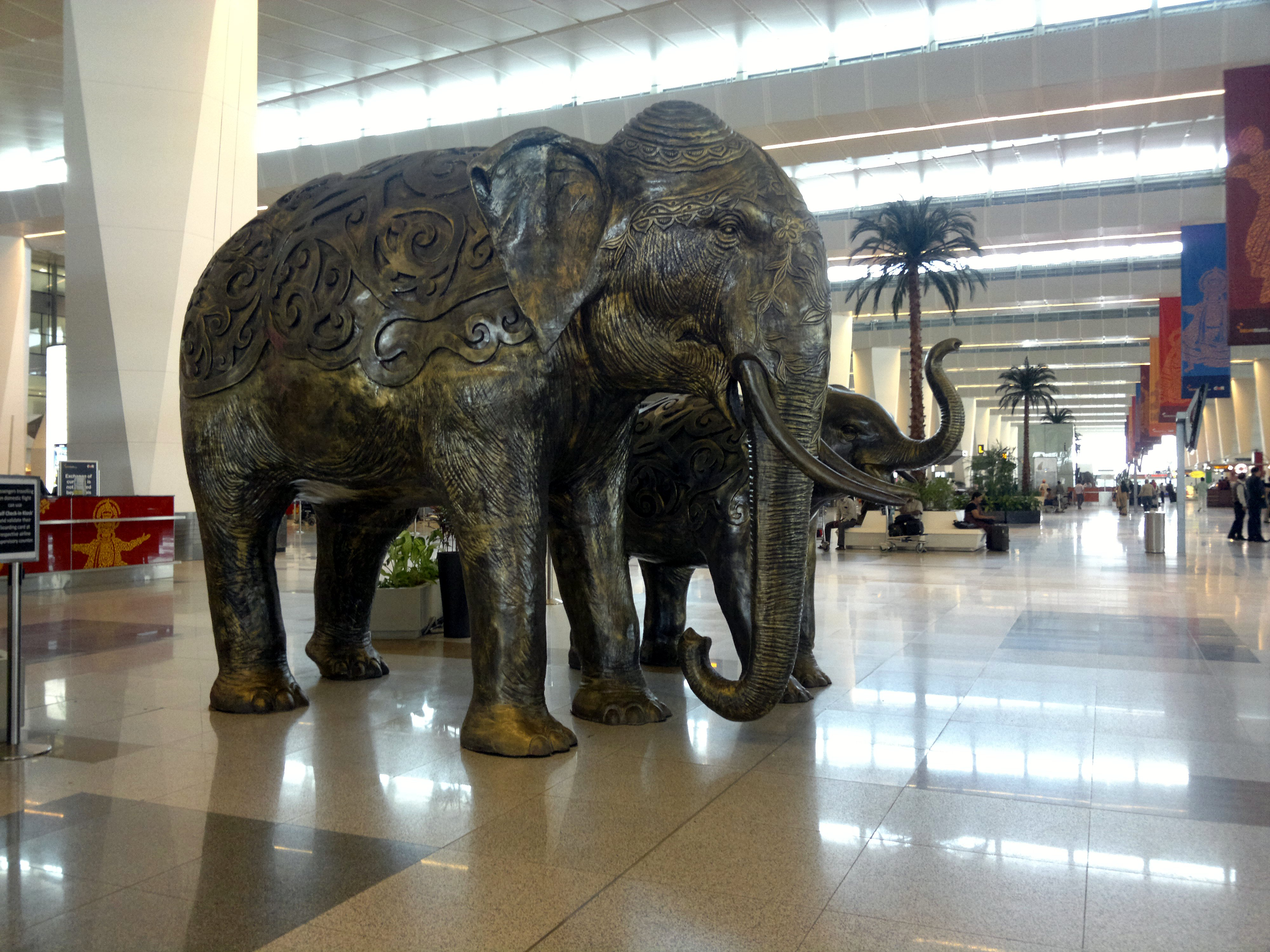 Indira Gandhi International Airport. With the commencement of operations at the new Terminal 3, Delhi's Indira Gandhi International Airport has become India's and South Asia's largest and most important aviation hub, with a current capacity of handling more than 46 million passengers and aimed at handling more than 100 million passengers by 2030.